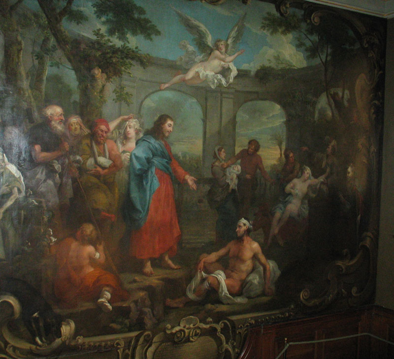 The Pool of Bethesda, Hogarth mural, photo by Nevilley